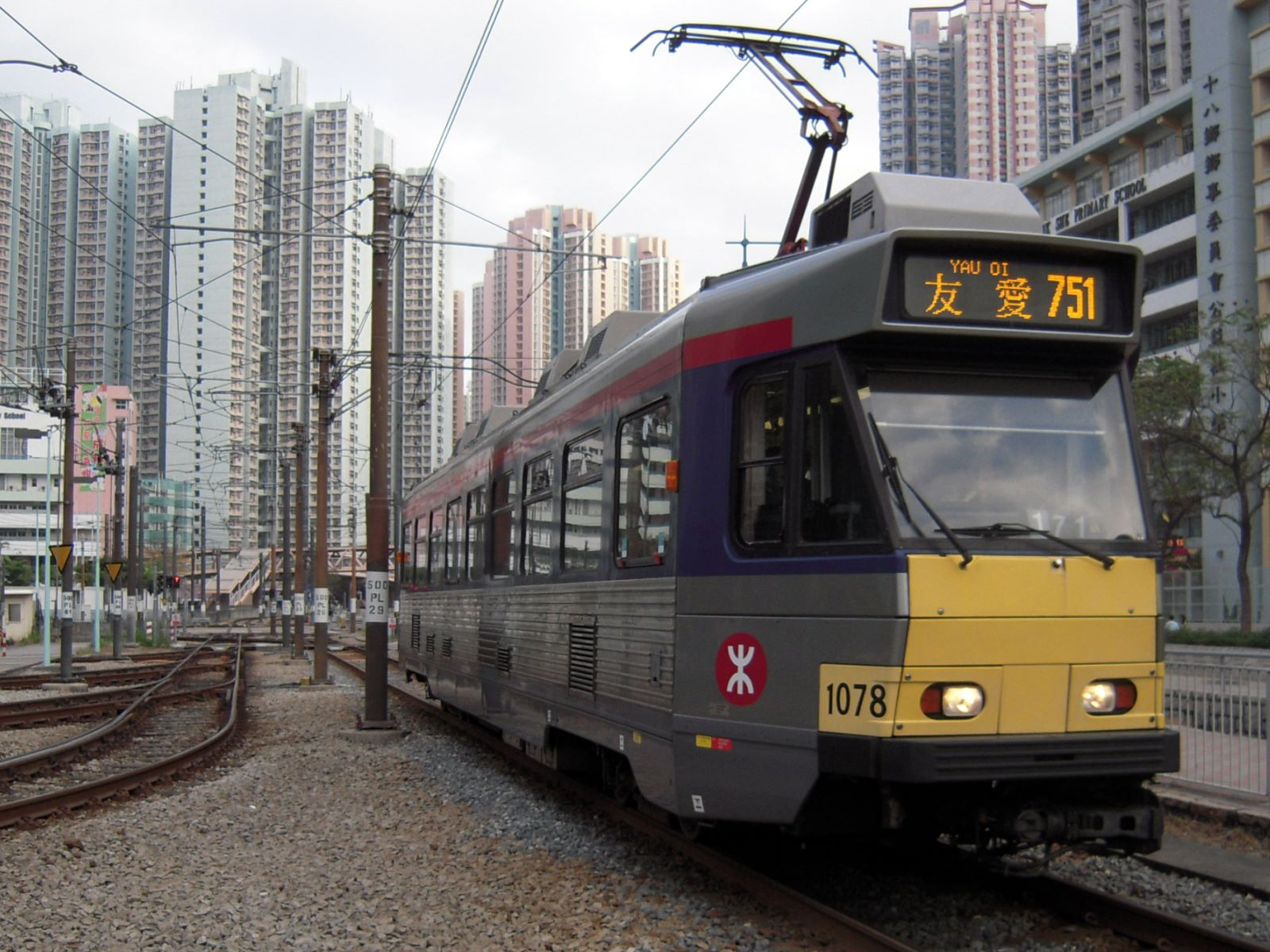 MTR LRT Train 1078 on route 751 at Tin Wing Stop